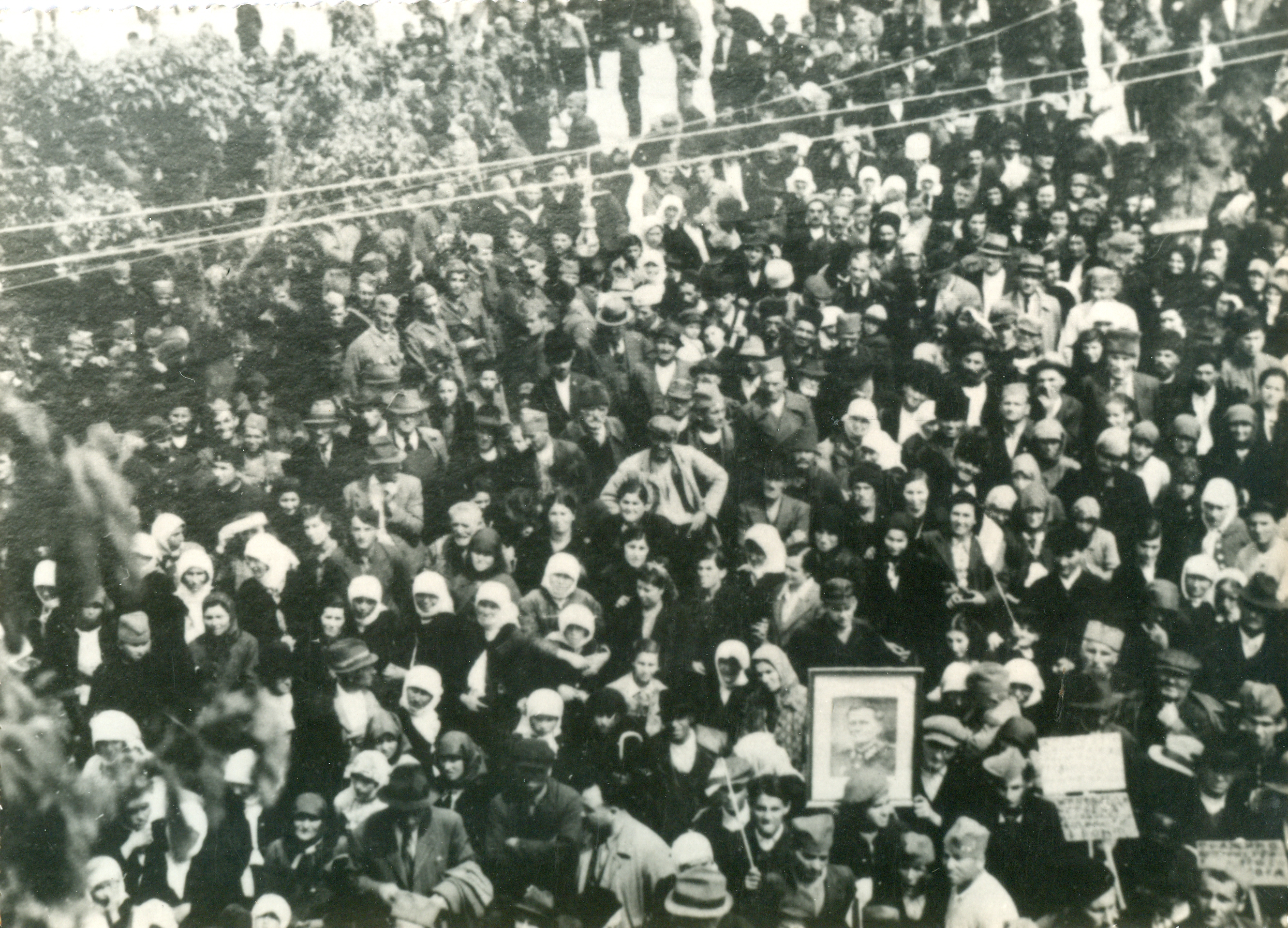 Celebration on May 1st in Negotin 1945. Srpski (latinica): Prva slobodna proslava Prvog maja 1945. u Negotinu